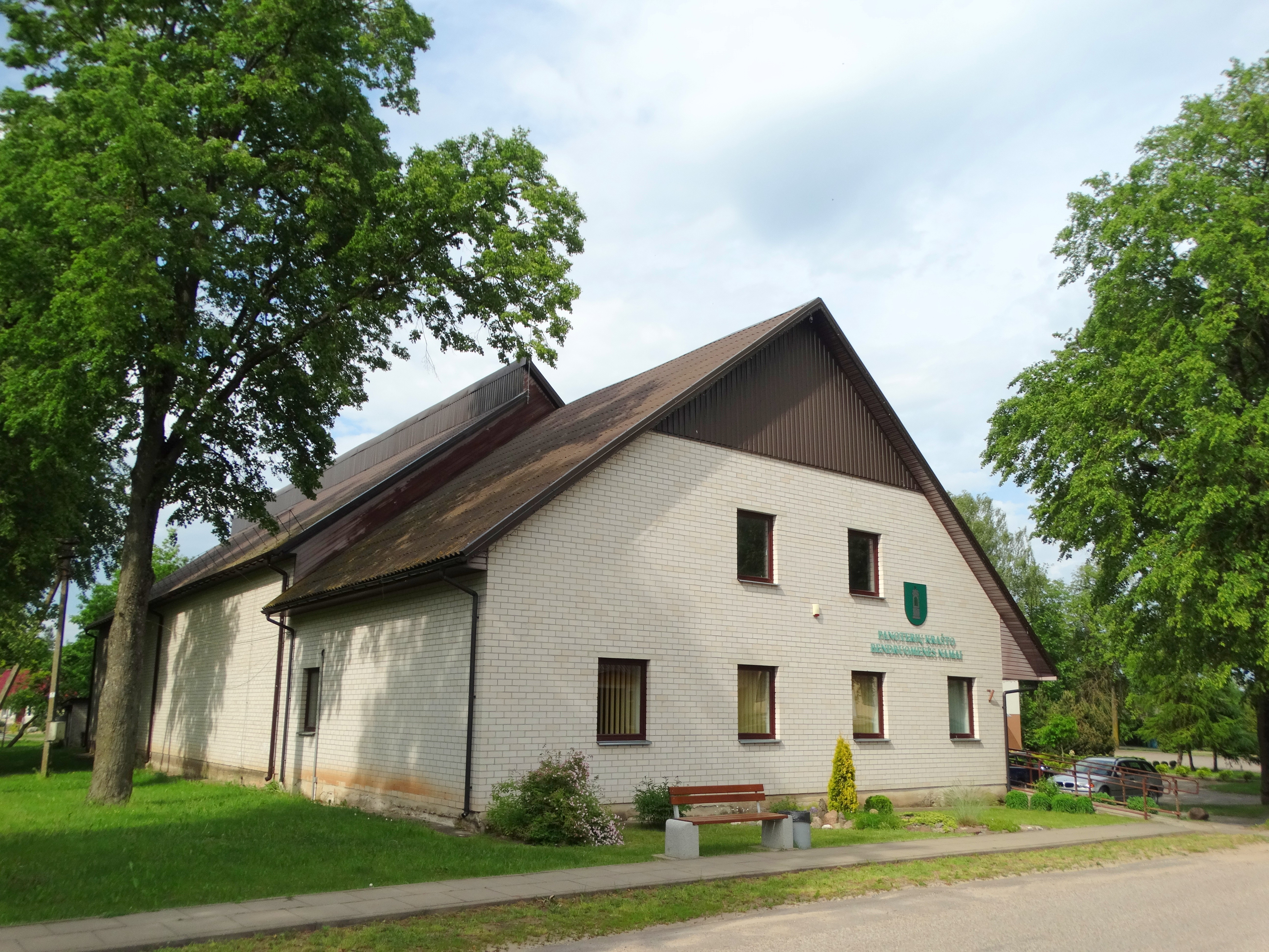 Community house, Panoteriai, Jonava district, Lithuania